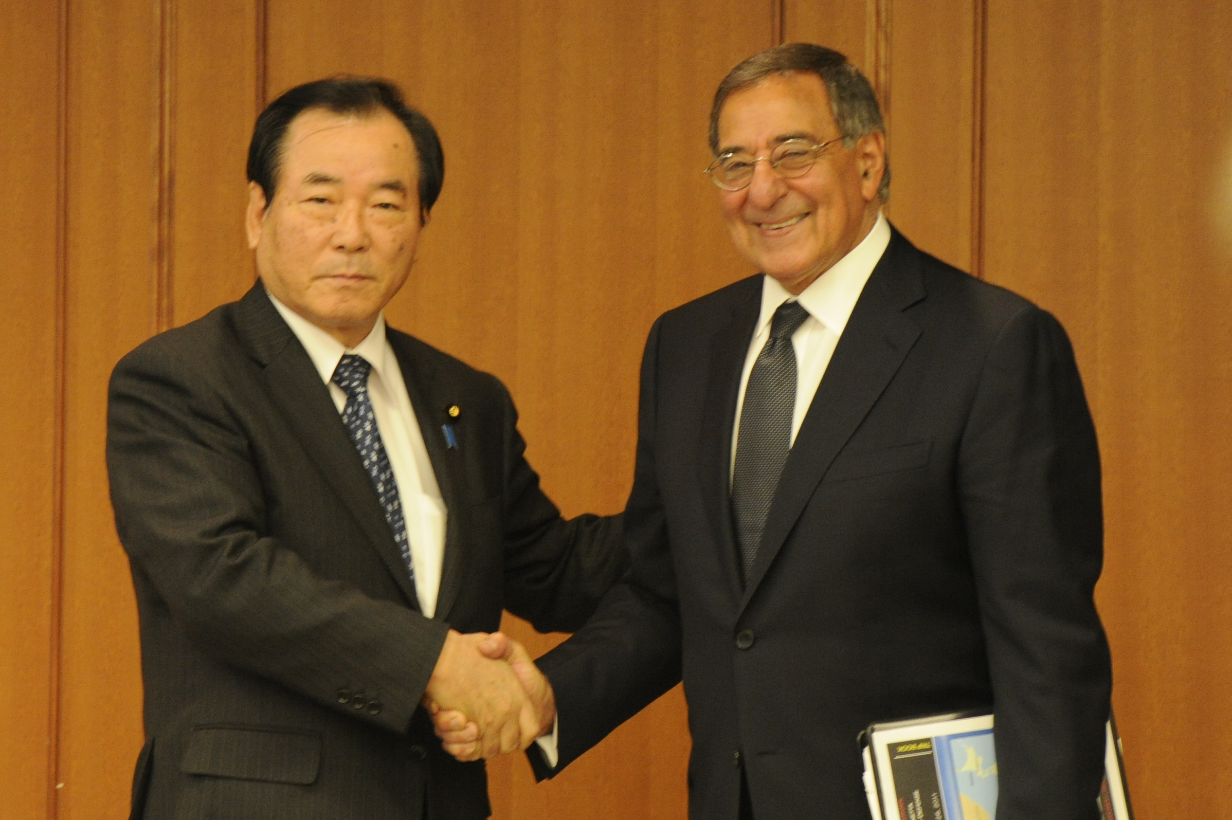 TOKYO, Japan (October 25, 2011) U.S. Secretary of Defense Leon Panetta and Japanese Defense Minister Yasuo Ichikawa before their meeting at the Japanese Ministry of Defense. [State Department photo by William Ng]